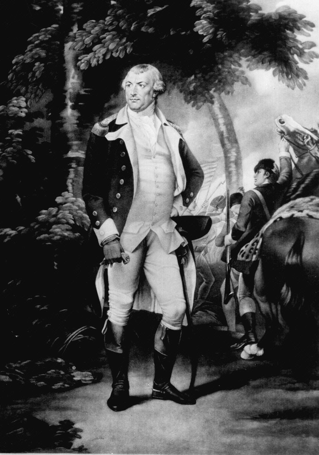 Greene, Nathanael. Mezzotint (full length) by V. Green from painting by C.W. Peale. 148-CW-474